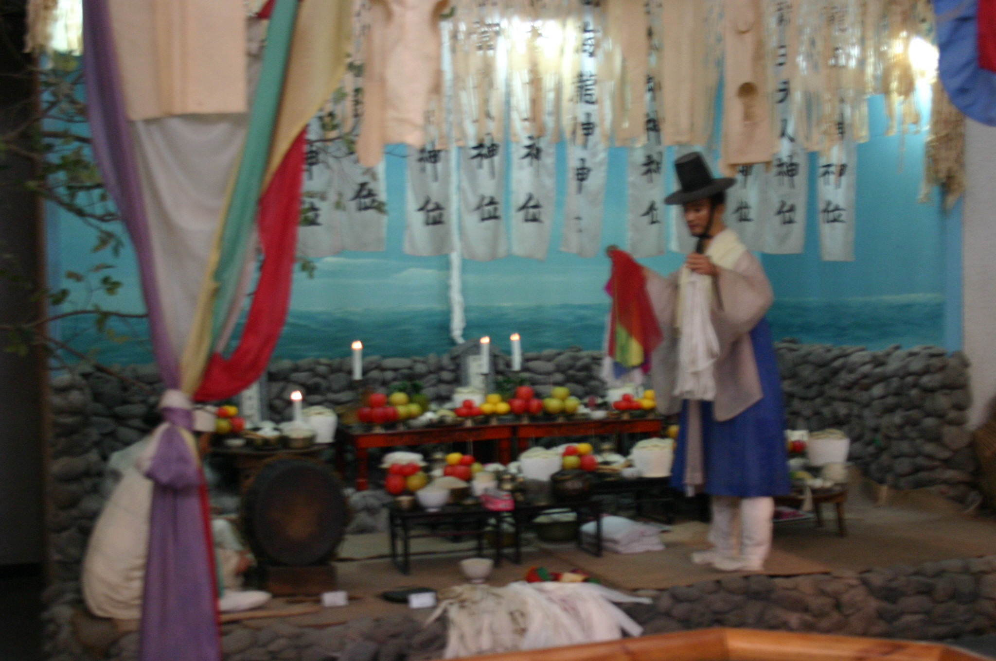 The display at the Jeju Folk and Nature Museum depicts the “baksu Mudang” (male shaman) to make “gut” (a ritual ceremony to pacify sprits). 제주칠머리당굿(濟州칠머리당굿, 또는 영등굿)